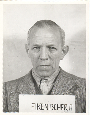 Alfred Fikentscher (1888 - 1979) at the Nuremberg Trials. This photograph of Rasche (probably as a witness) was taken by US Army photographers on behalf of the Office of the U.S. Chief of Counsel for the Prosecution of Axis Criminality (OUSCCPAC, May 1945 - Oct. 1946) or its successor organization, the Office of Chief of Counsel for War Crimes (OCCWC, Oct. 1946 - June 1949).